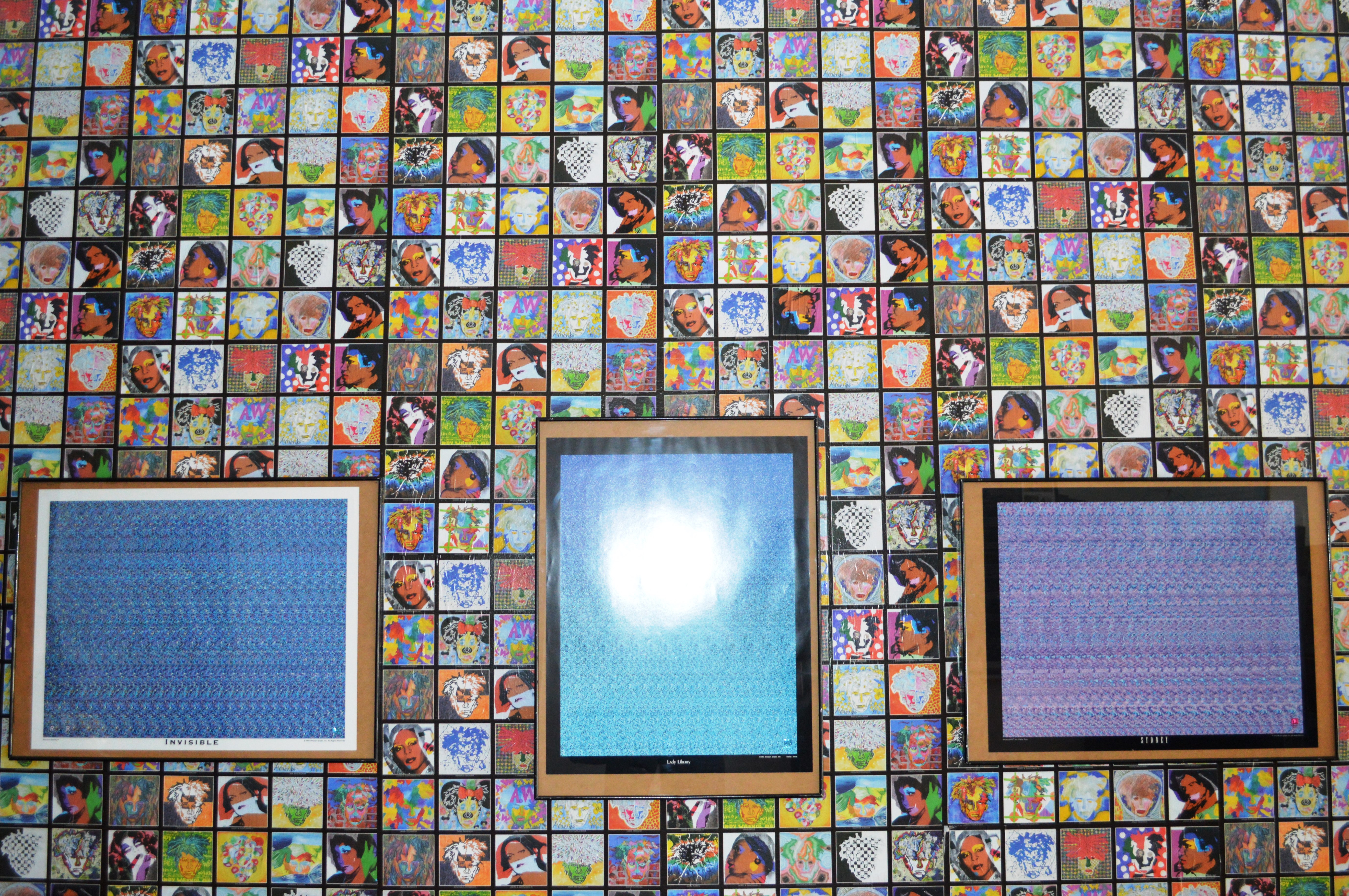 Medzilaborce is a town in northeastern Slovakia close to the border with Poland, located near the towns of Sanok and Bukowsko (in southeastern Małopolska). It is an administrative and cultural centre of the Laborec Region, connected by train line with the town of Humenné to the south and with Poland to the north. It is home to the Andy Warhol Museum of Modern Art, opened in 1991, which contains many artworks and effects of Andy Warhol and of his brother Paul and nephew James Warhola. On a hill opposite the Museum stands the Holy Spirit Orthodox Church. The Scotch Mist Gallery contains many photographs of historic buildings, monuments and memorials of Poland and beyond.